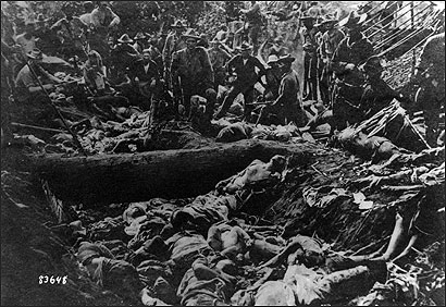 US Soldiers pose with Filipino Moro dead after the First Battle of Bud Dajo, March 7, 1906, Jolo, Philippines.